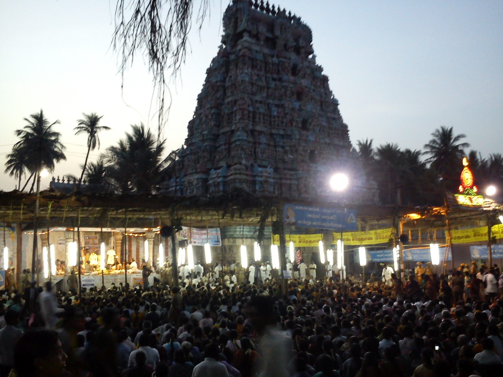 It will be celebrated on March/April every year